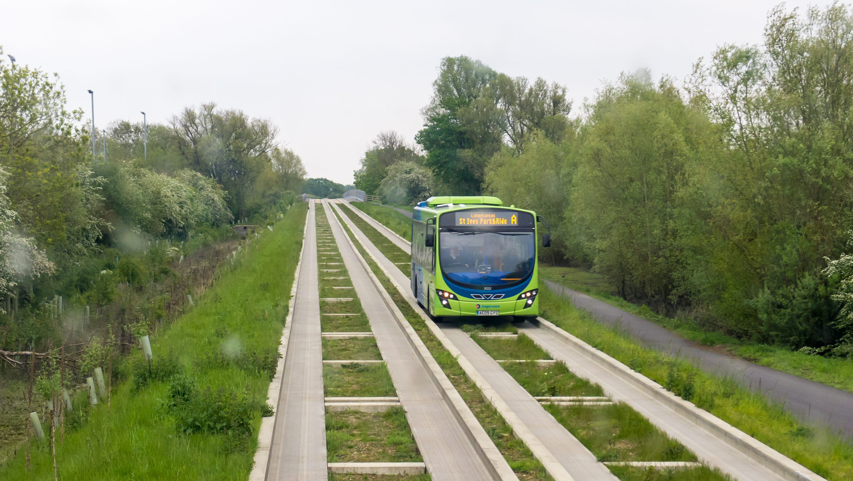 Stagecoach in Huntingdonshire 21222 (AE09 GYS), a Volvo B7RLE/Wright Eclipse Urban 2 on the Cambridge Guided Busway, Cambridgeshire on route A.